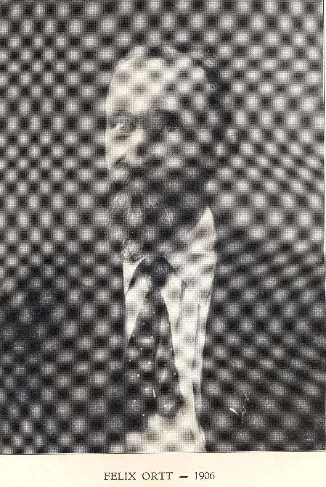 Felix Ortt 1906 from: Van en over Felix Ortt, bundel uitgegeven ter gelegenheid van z'n 70ste verjaardag